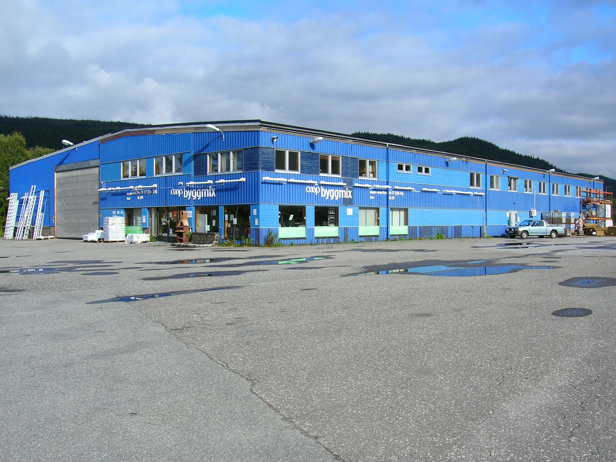 Coop Byggmix, department Selfors, on Selforsvn 14. Rana municipality, county of Nordland, Norway. Photo 16 September 2007 with a Nikon Coolpix 5600 5,1 Megapixel camera. Coop Byggmix closed its doors in Ranenget on 11 June 2011 at 1:00 PM, and moved to a new building in Svortdalen on 23 June 2011. The building was teared down during the summer of 2013 and was replaced by a new building.